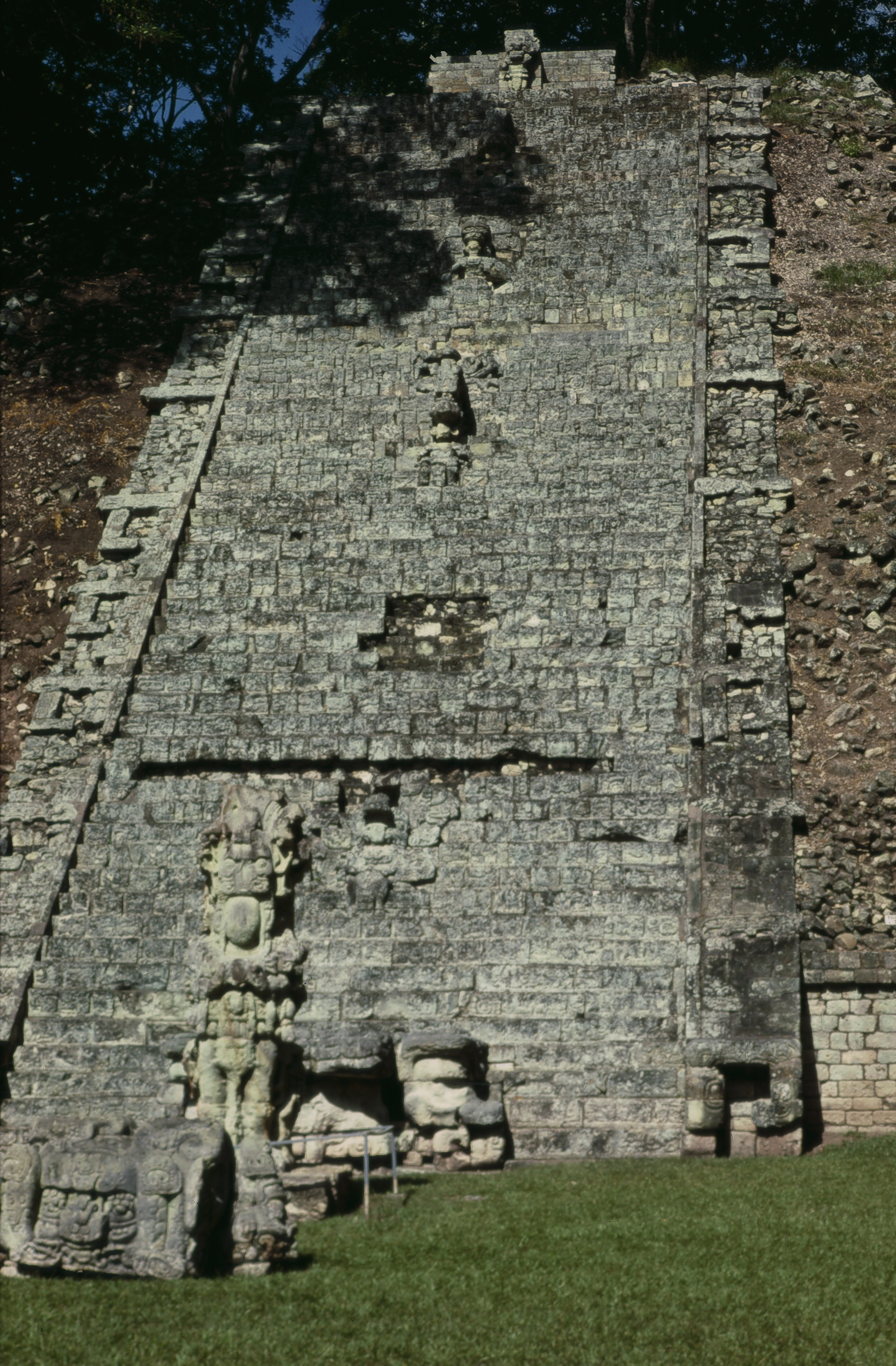 Copán, Honduras: Hieroglyph stairway